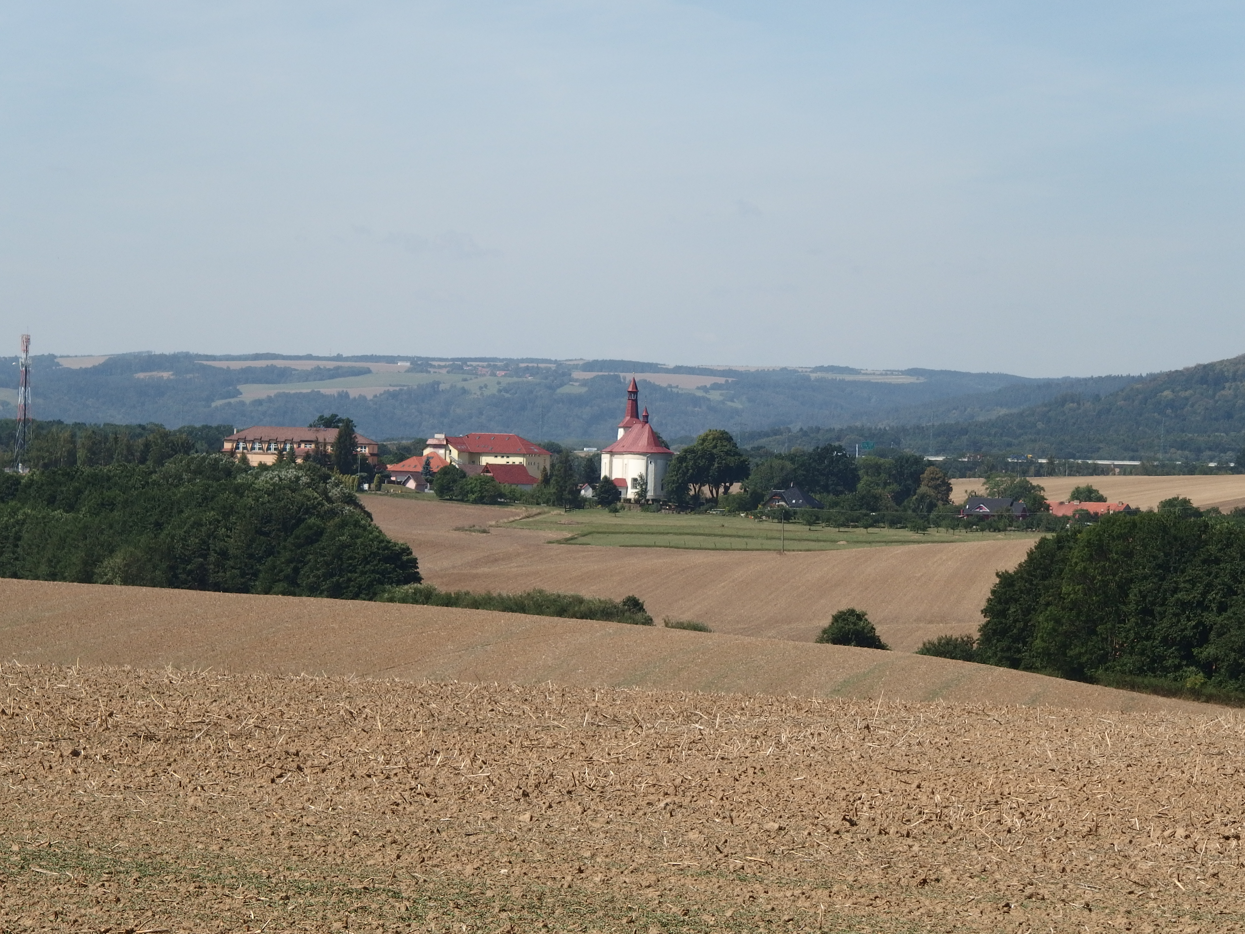 Bělotín, Přerov District, Czech Republic.